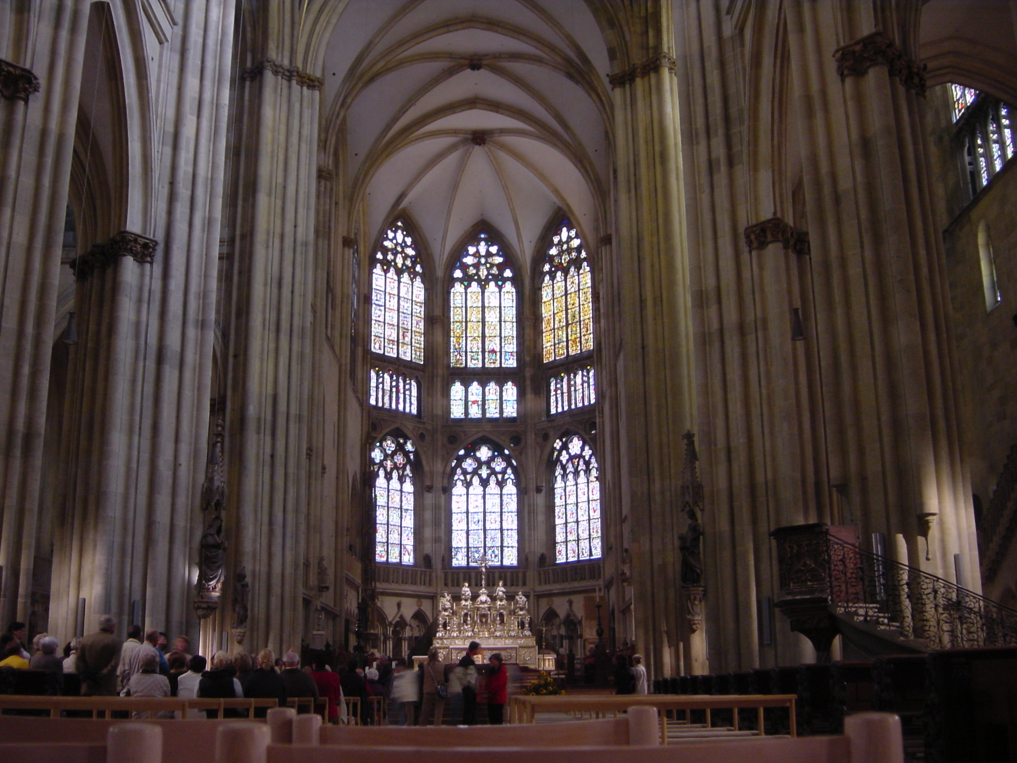 Interior of Regensburg Cathedral